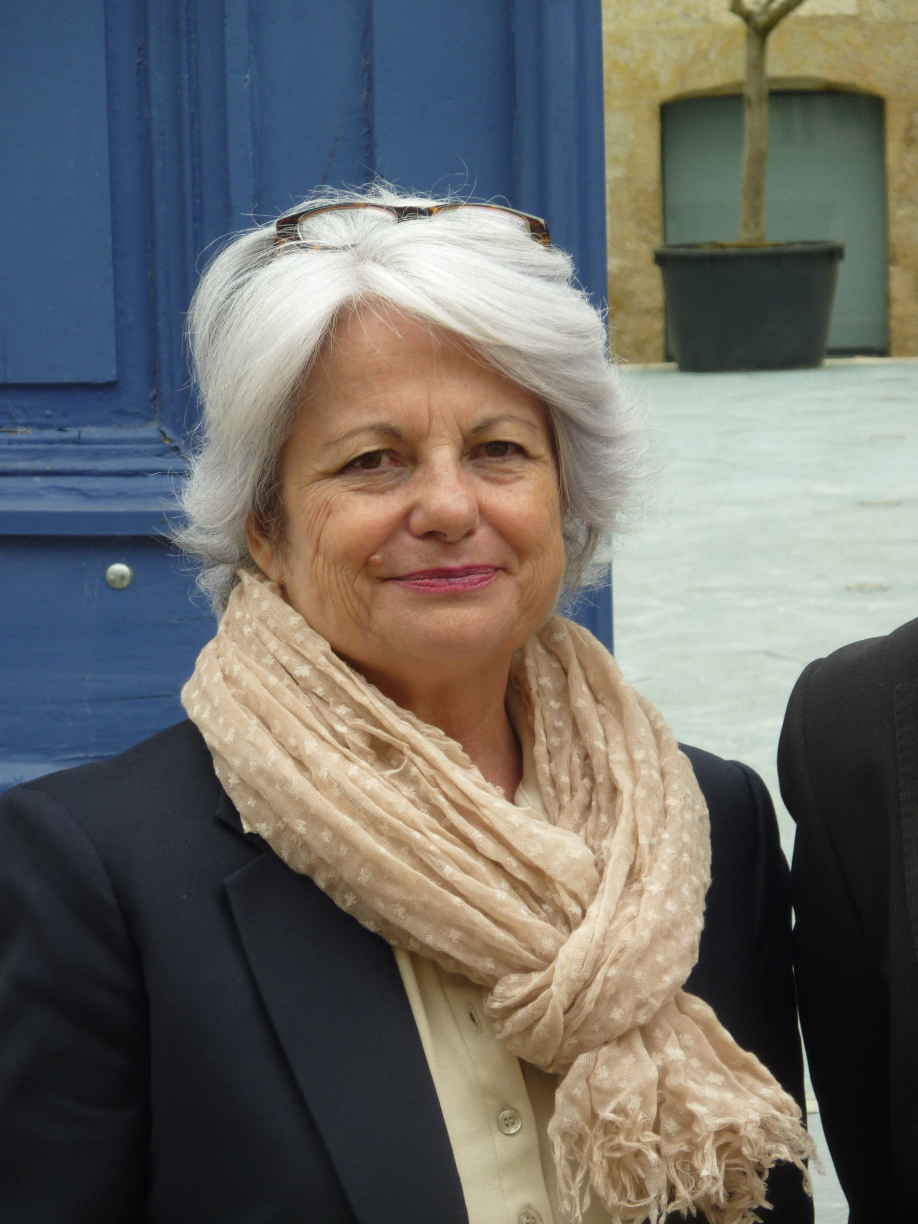 Gisèle Biémouret, deputée (deputy) for the 2nd district of Gers, France. Taken at the Lectoure market place.